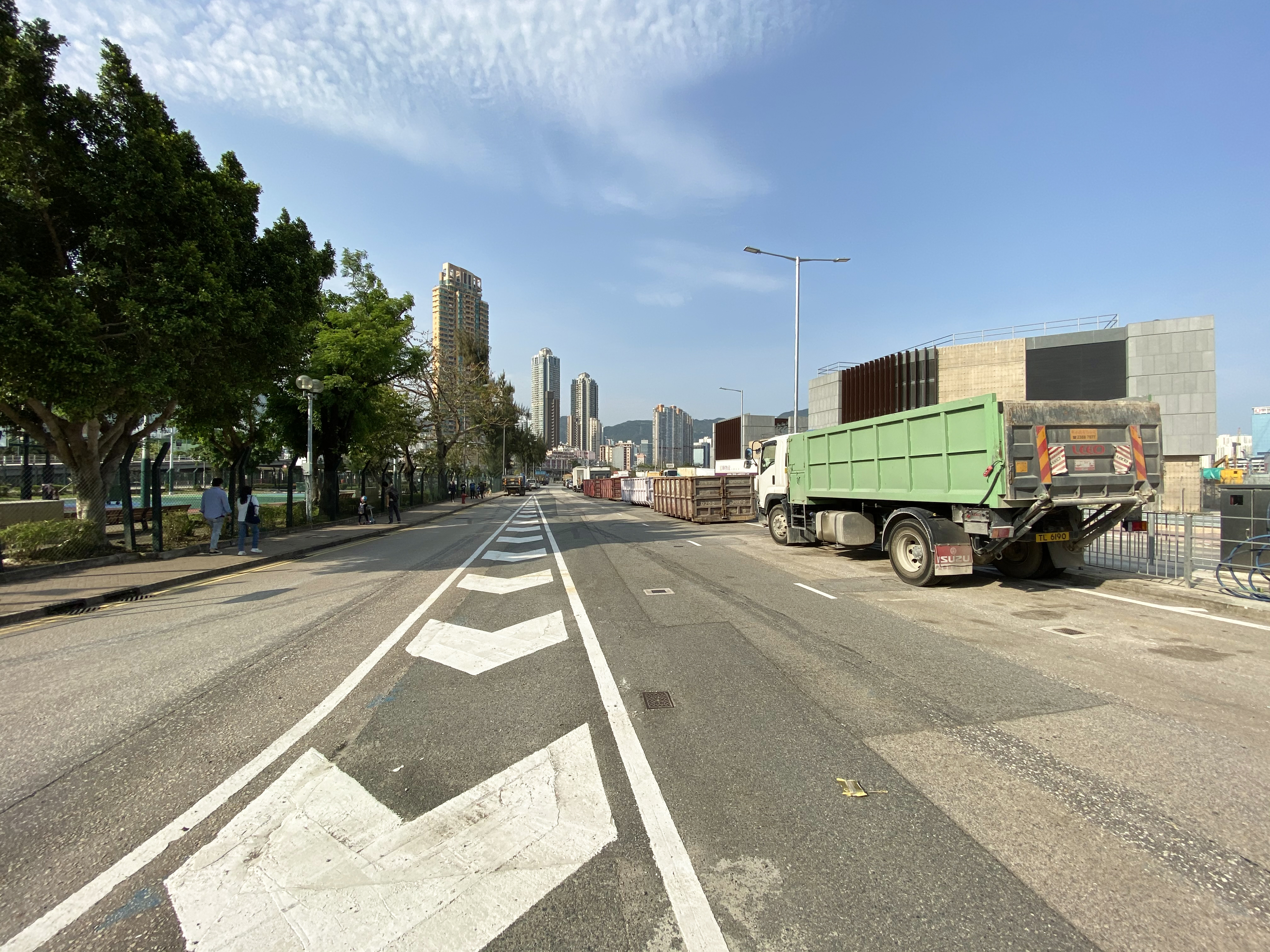 Olympic Avenue